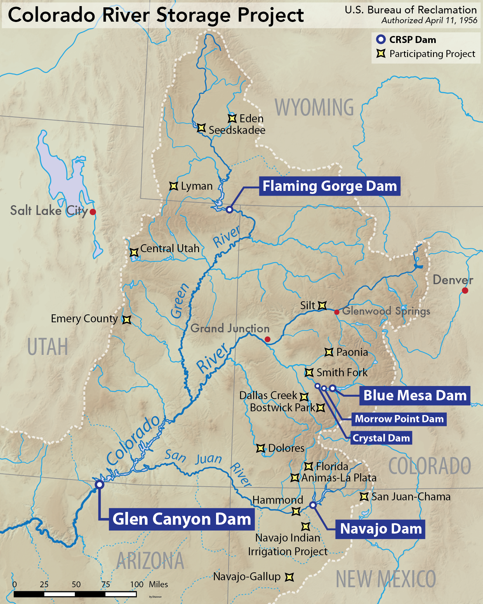 Map showing the federal Colorado River Storage Project facilities of the upper Colorado River basin, United States. Shaded relief data from US Geological Survey.